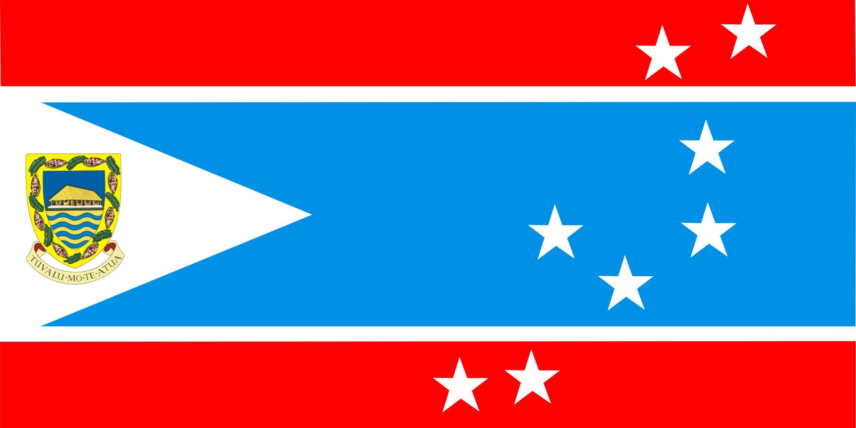 Now better reolution in PNG. I have it in SVG as well but it turns out blank on Commons. ??